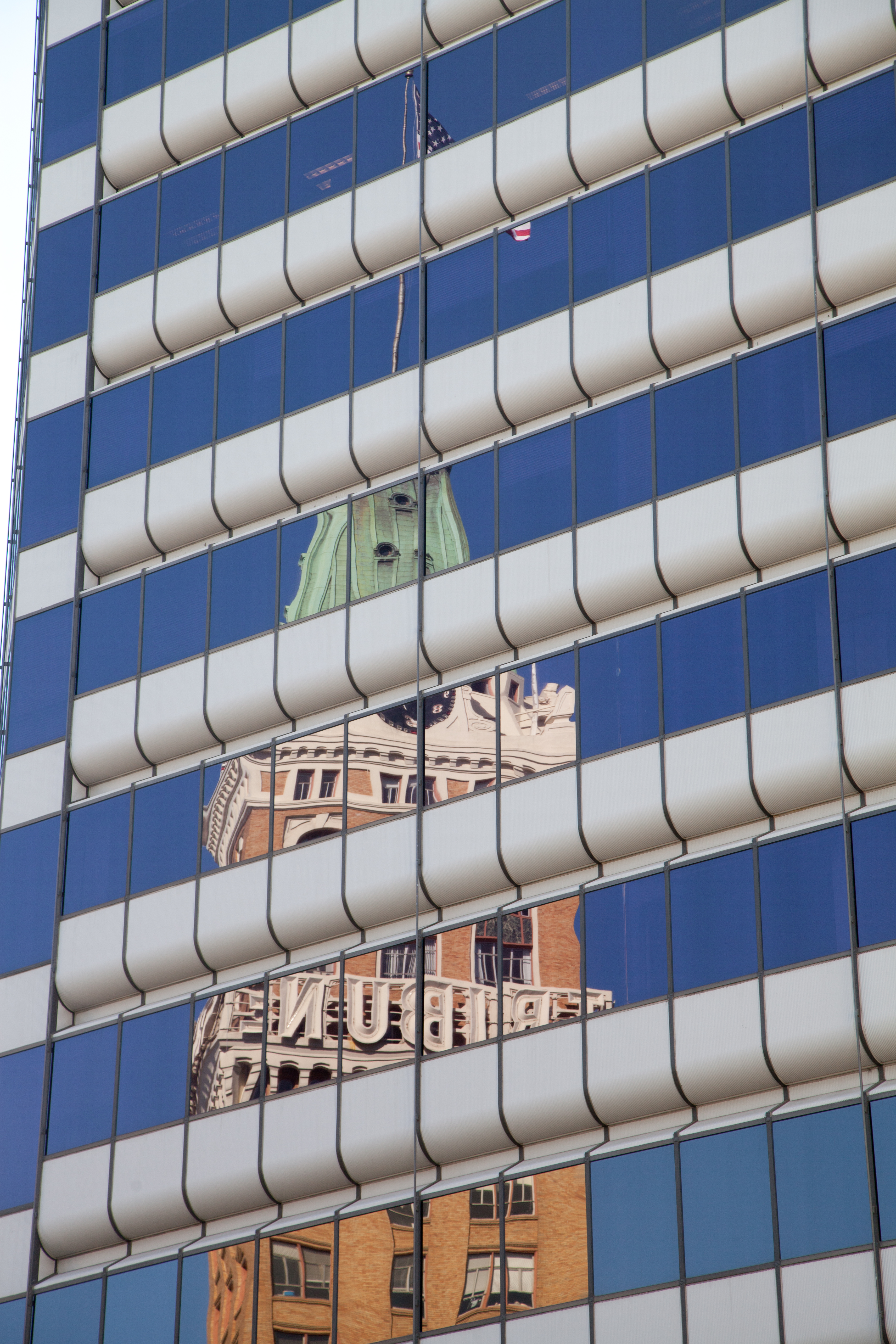 Downtown Oakland Historic District